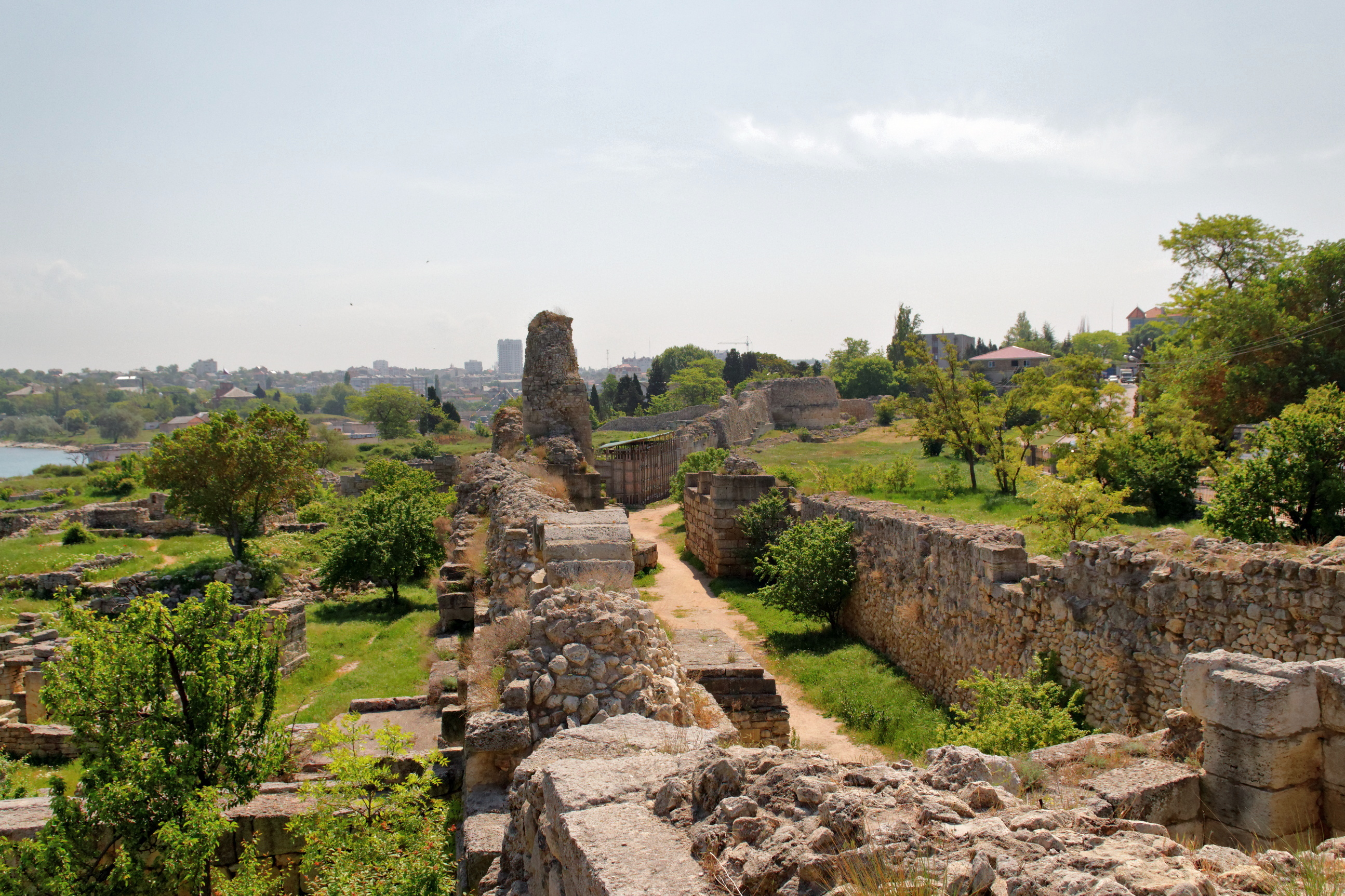 Sevastopol. Chersonesus. Fortress Wall